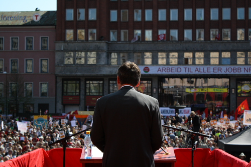 the norwegian prime ministers Jens Stoltenberg 1.may speech at youngstorget, oslo